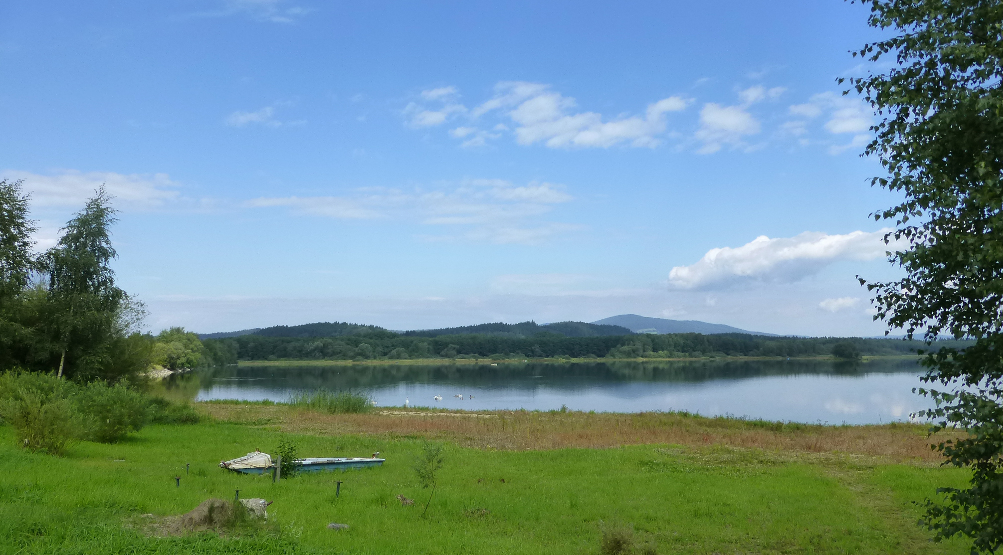 View of the Lipno Reservoir, at Černá v Pošumaví, road 39.